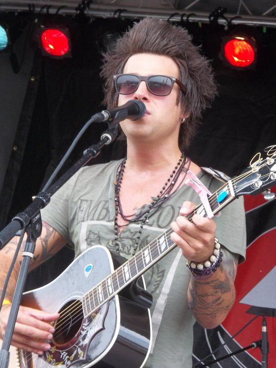 Ryan Cabrera performing at National FreedomFest in Washington, D.C. on July 4, 2011.